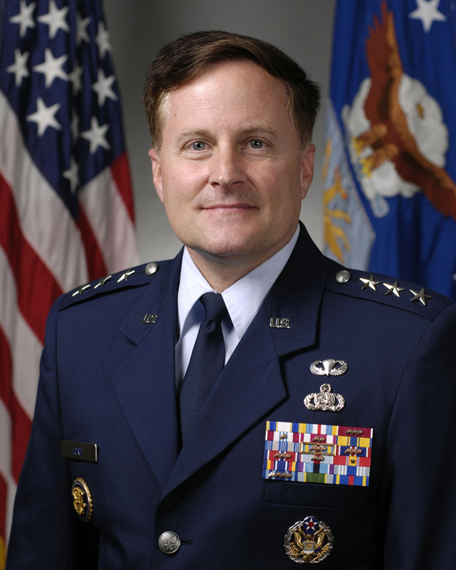 Official Photo of Lt Gen William T. Lord